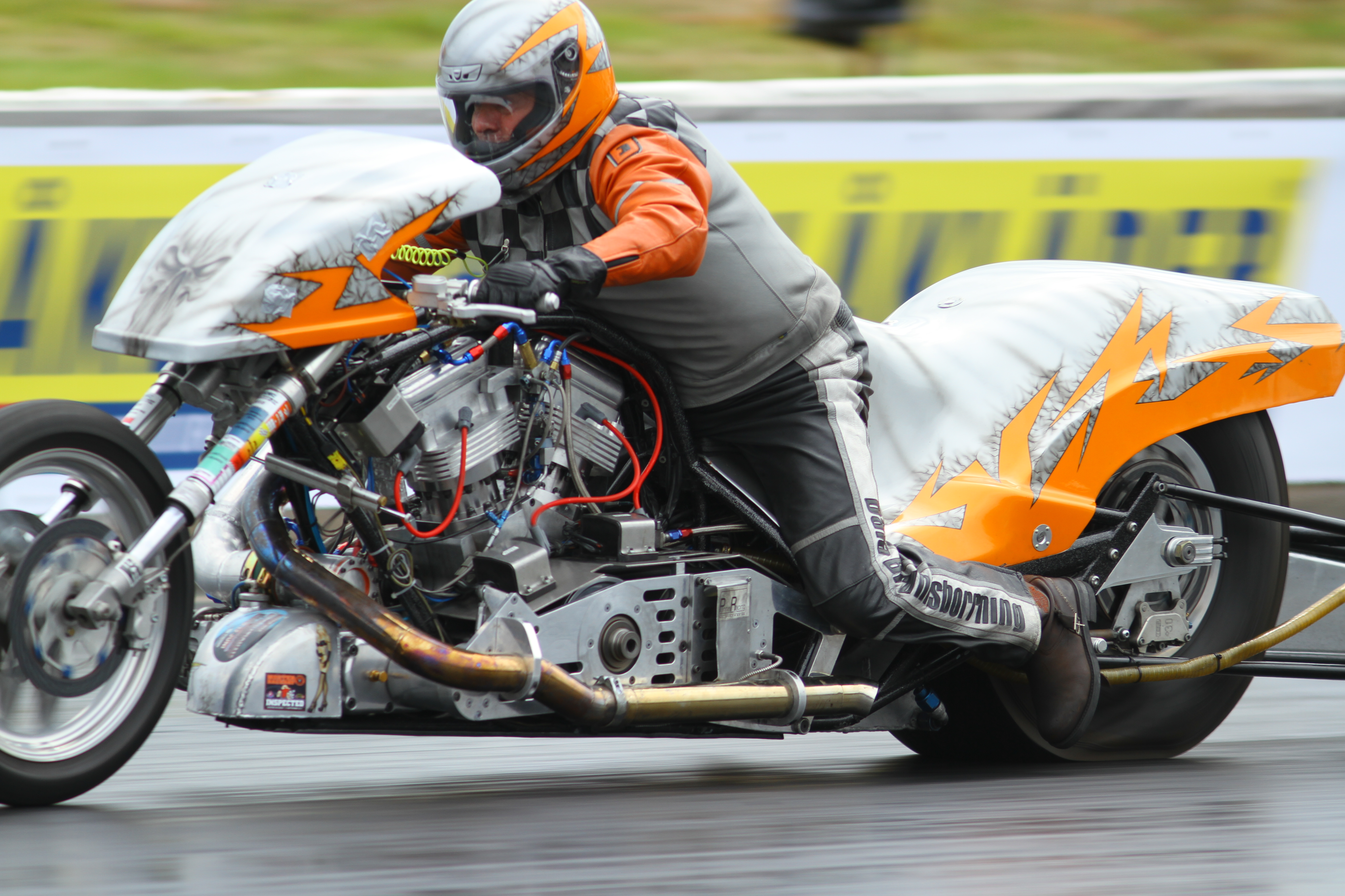 FHRA Kamasa Drag Race Week at Alastaro Circuit, Finland.